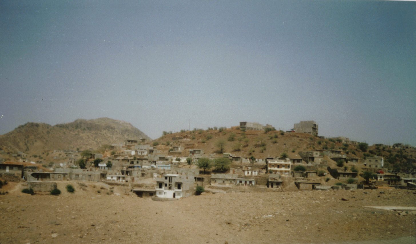 Residential area in the North of Praia, Cape Verde.